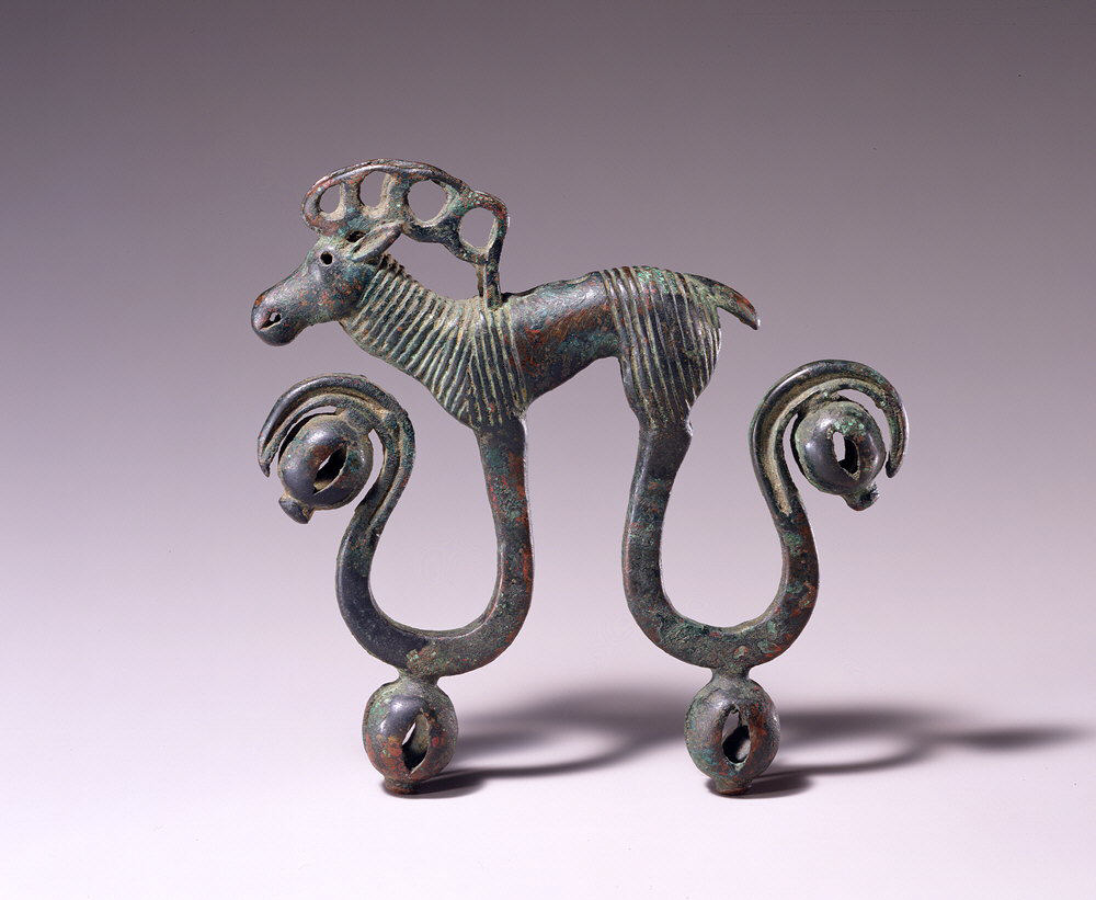 Northeast China; Harness jingle; Metalwork